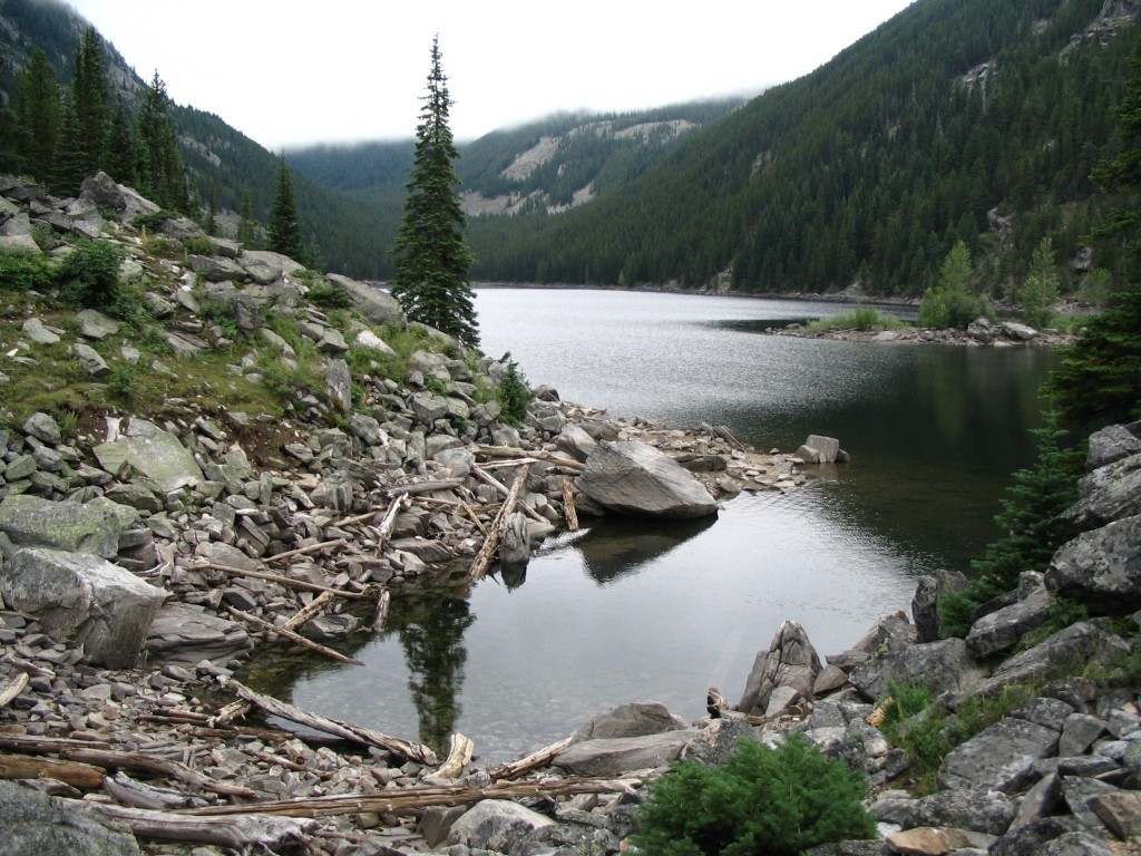 Lava Lake in the Gallatin Range Montana